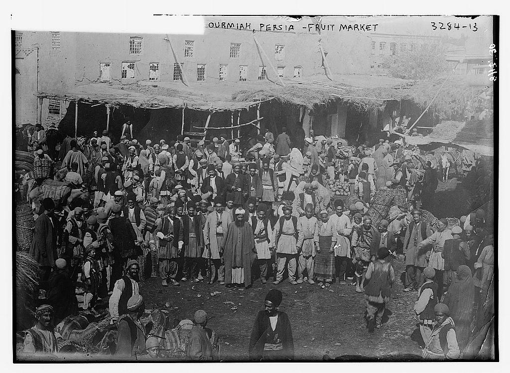 Ourmiah, Persia - Fruit Market, 1911